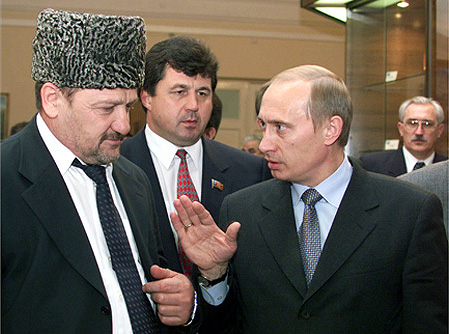 ROSTOV-ON-DON. President Putin and Akhmad Kadyrov, head of the Chechen Government.